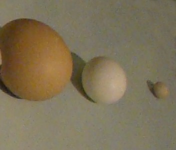 Several eggs in the Natural History Museum of London